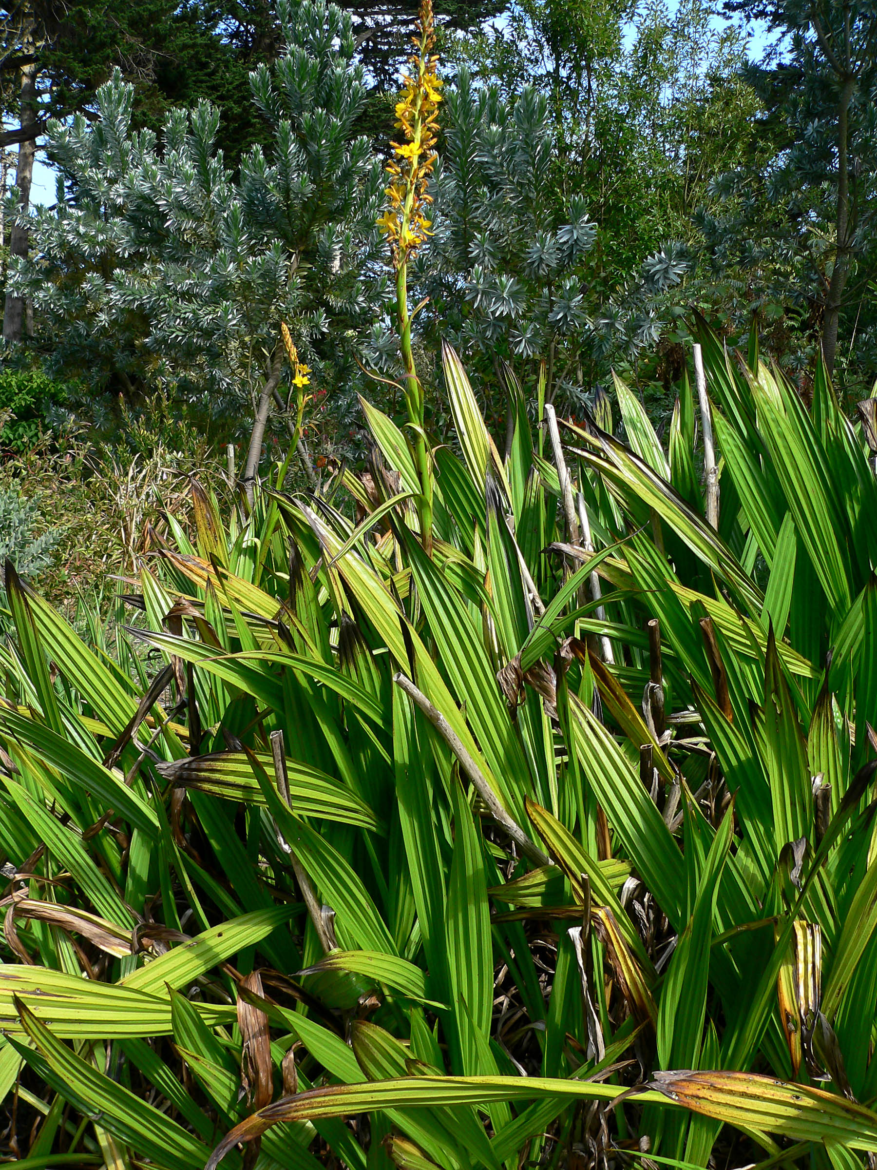 Photo of Wachendorfia thyrsiflora_ at the San Francisco Botanical Garden